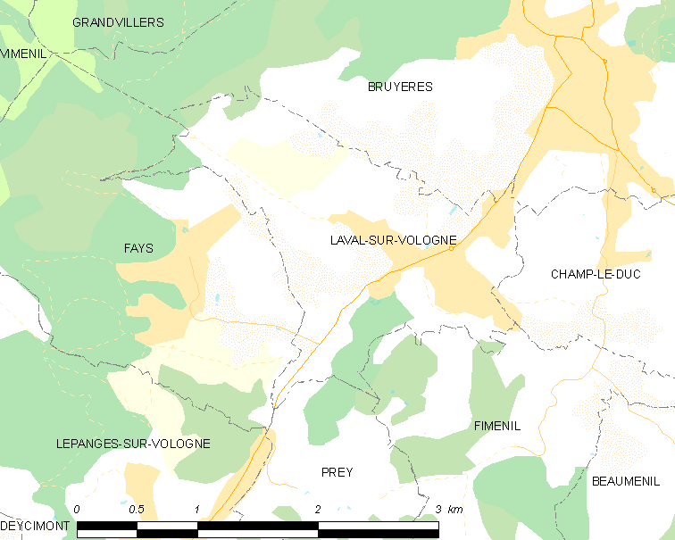 Map of French municipality Laval-sur-Vologne